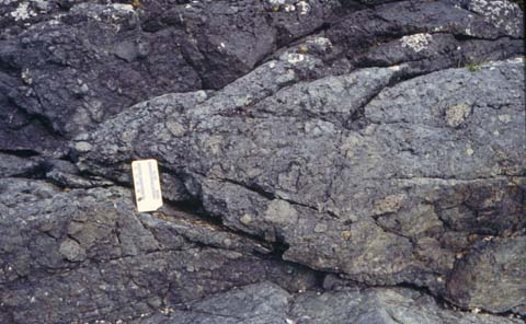 Agglomerate from the Seymour Canal Formation volcanic rocks (Alaska-USA)(Cretaceous and Jurassic age)